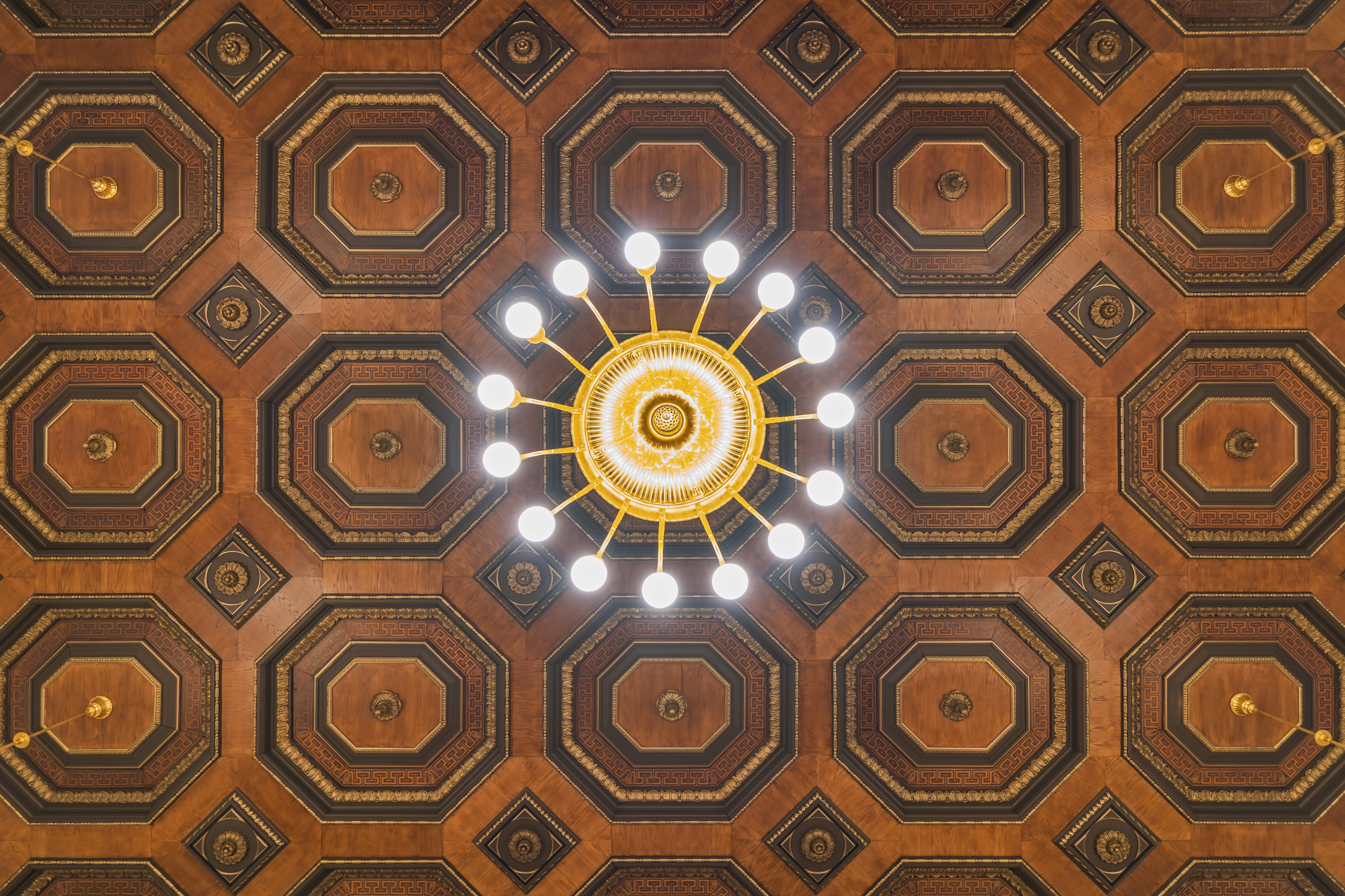 Interior of Meistersaal (Master Hall / Hansa Studio 2) in Berlin